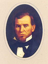 Hardin Richard Runnels, 6th Governor of the State of Texas.